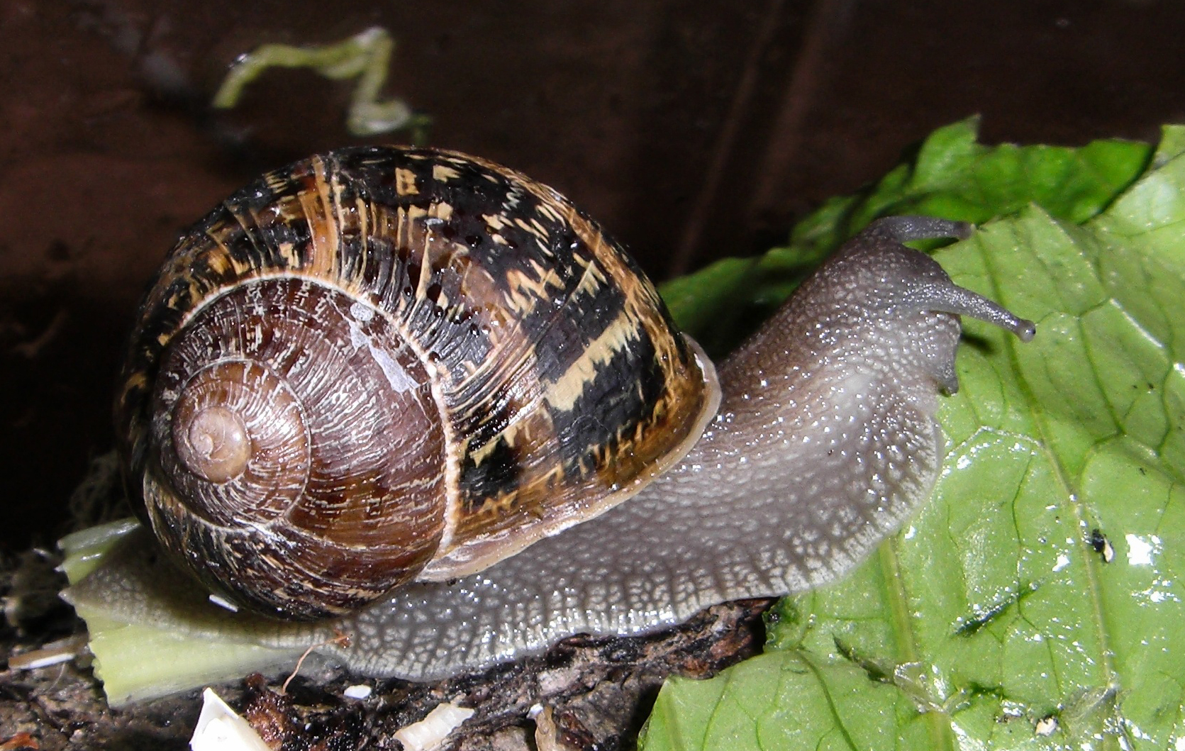 Eating Garden Snail (Helix aspersa)